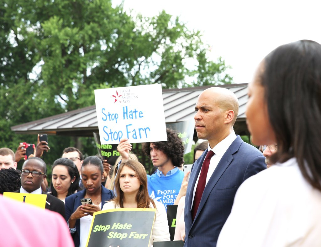 The Trump Administration wants to nominate a man named Thomas Farr for a lifetime appointment to a U.S. District Court. This is a man who has engaged in systemic voter suppression throughout his legal career. We must stop his nomination. StopHateStopFarr